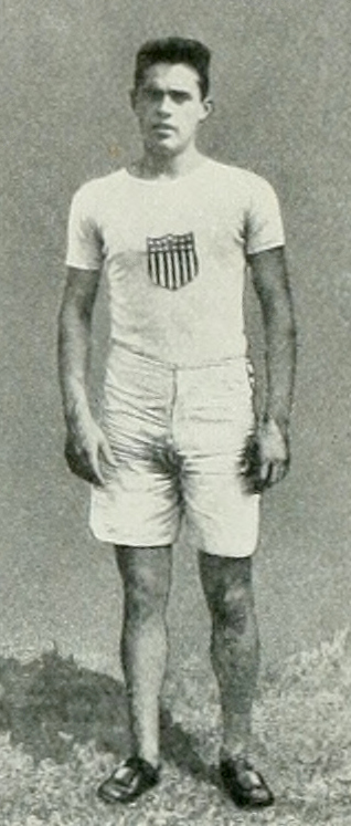 Ted Meredith US olympic champion.